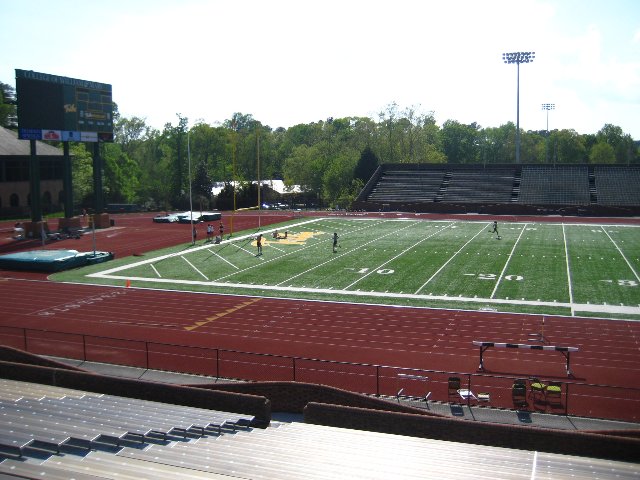 Zable Stadium's artificial grass field at the College of William & Mary in Williamsburg, Virginia, USA.